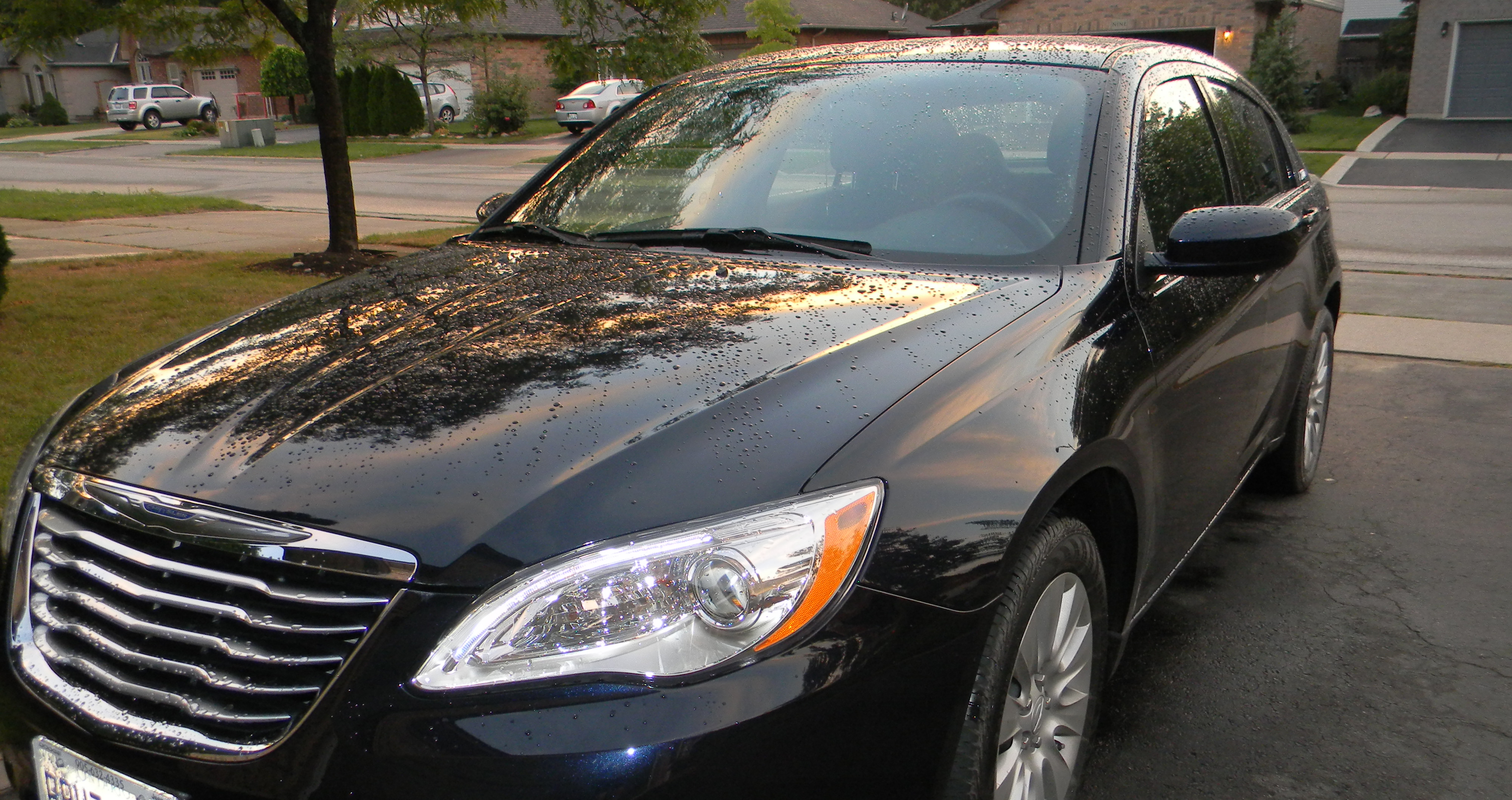 2012 Chrysler 200 LX photographed in Canada.